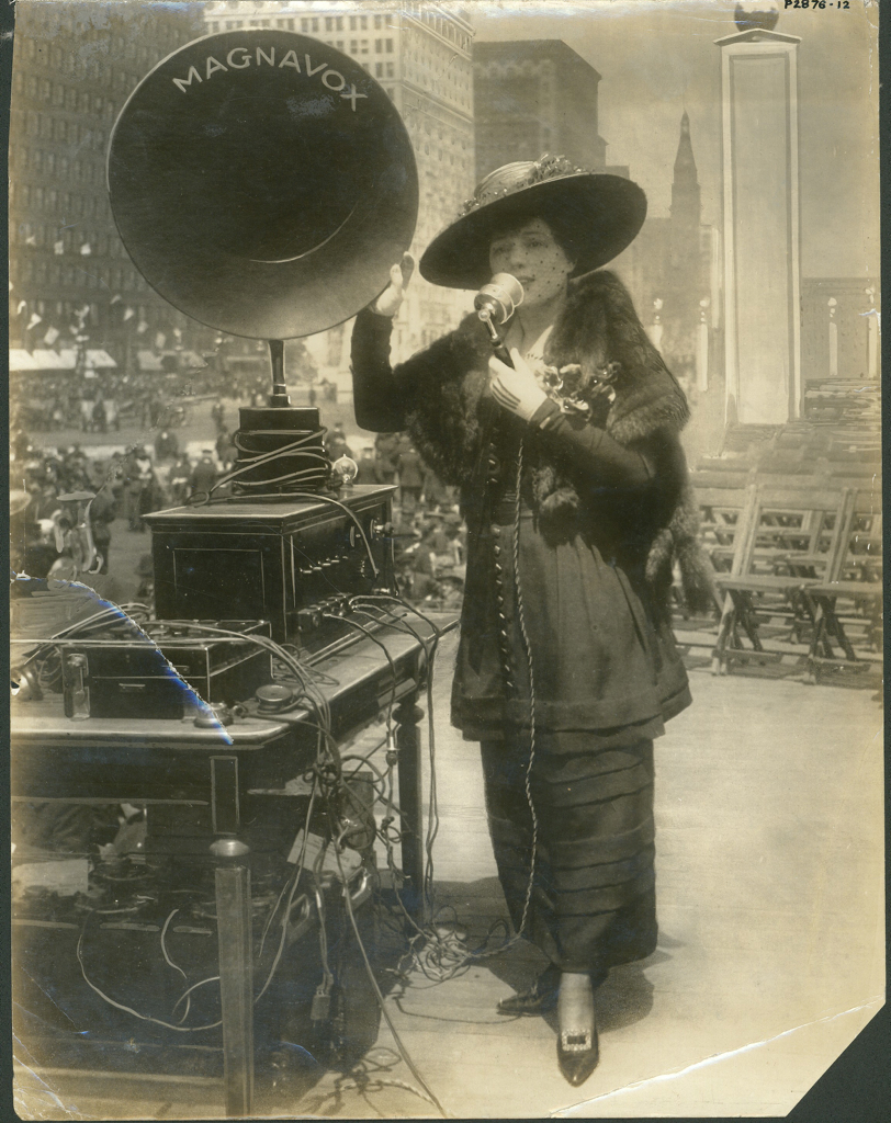 American actress Fritzi Scheff demonstrating a Magnavox public address system in New York City to promote the Fifth Liberty Loan, a US government war bond issue to pay for World War 1. The Fifth Liberty Bond was sold beginning in April 1919, so the picture was taken sometime after that date. This was one of the first public address systems, made possible by the development of the first practical amplifying vacuum tubes around 1917 and the first voice coil speaker, the Magnavox, in 1915. Part Of: Powerhouse Museum Collection General information about the Powerhouse Museum Collection is available at Persistent URL